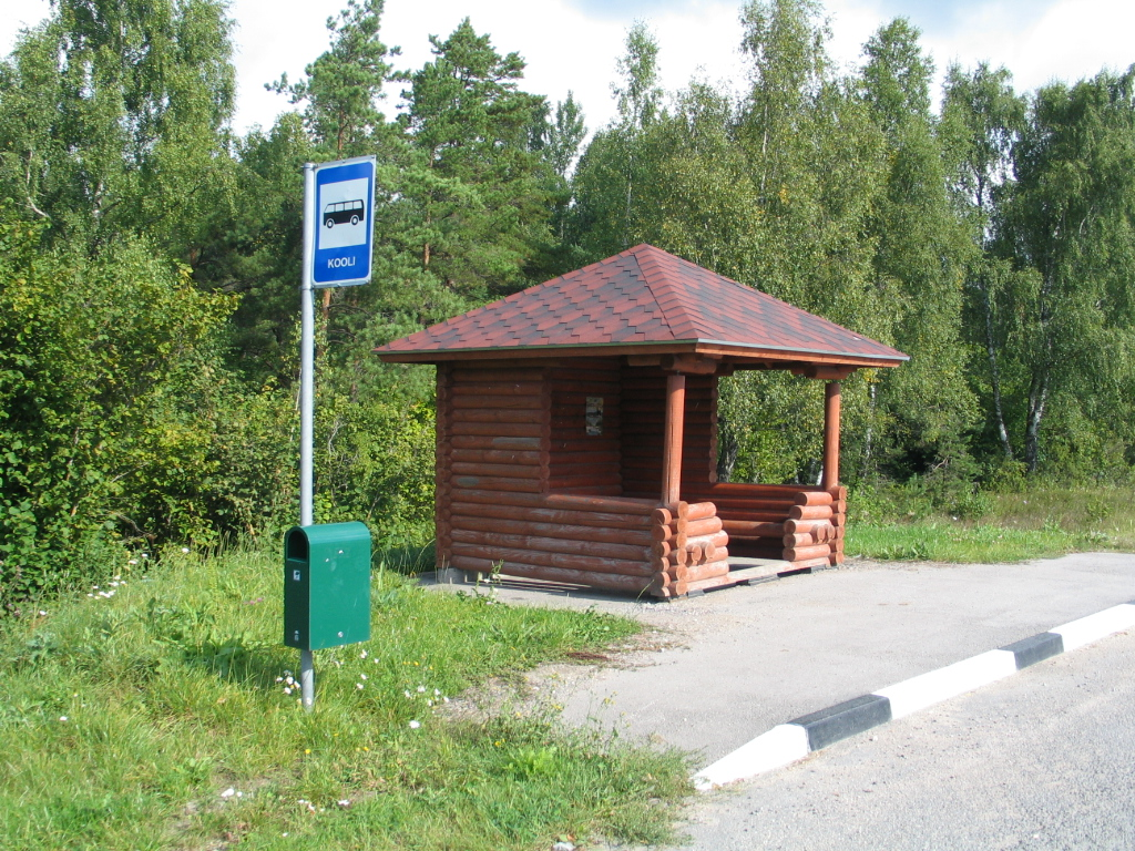 A "Kooli" bus stop in Upa village, Kaarma parish